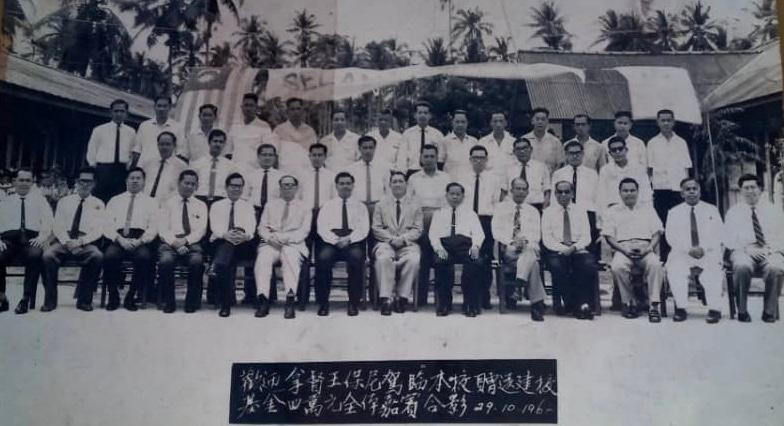 SRJK Kwong Hwa (Butterworth) Founders